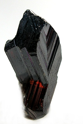 Rutile Locality: Minas Gerais, Southeast Region, Brazil (Locality at ) Size: thumbnail, 2.2 x 0.9 x 0.7 cm Rutile (twinned!) CLASSIC BUT RARE - this is a doubly twinned rutile crystal with exquisite form ! With deep red, glowing highlights, this rutile specimen exhibits a bright metallic luster.